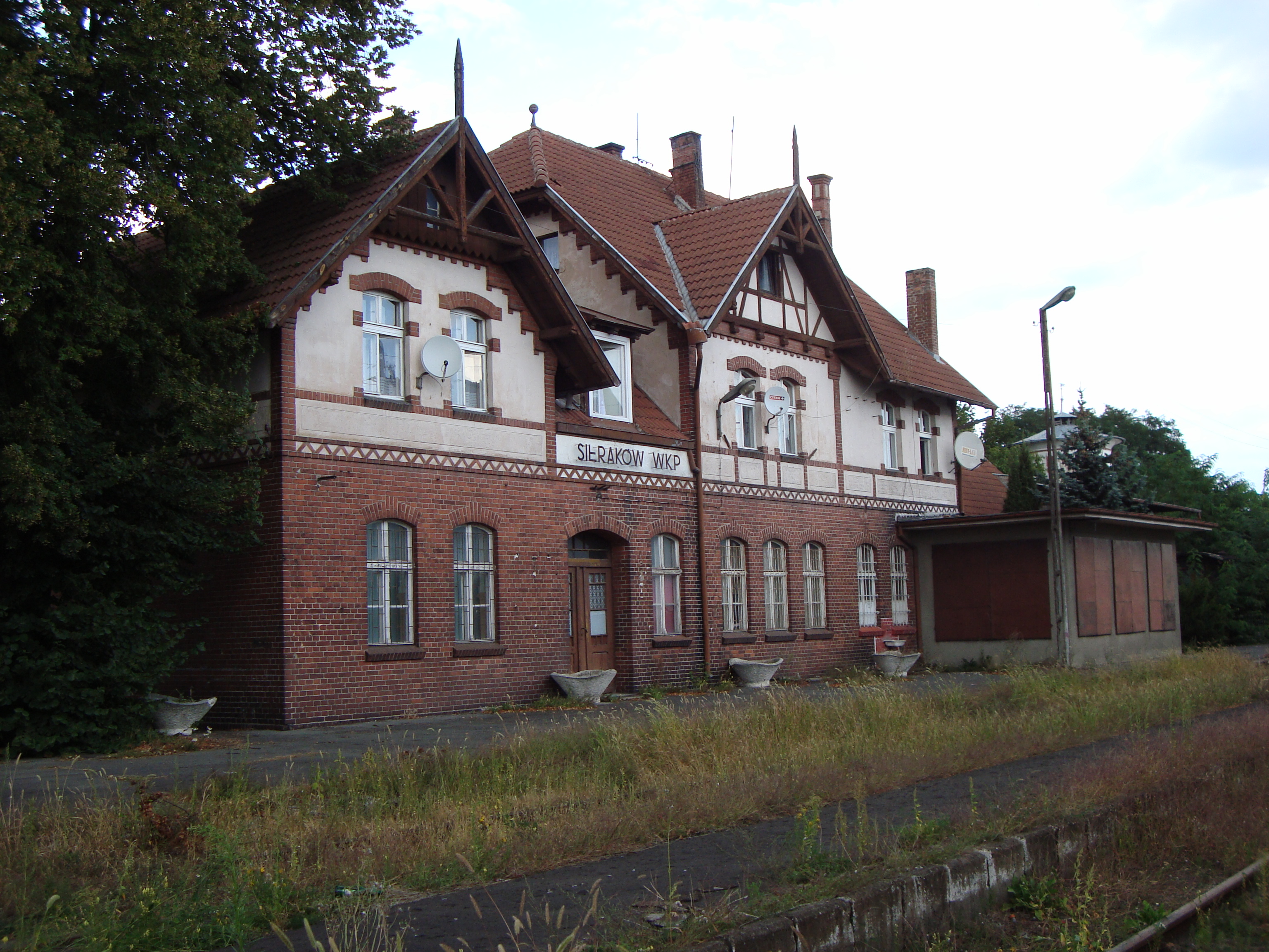 Unused railway station